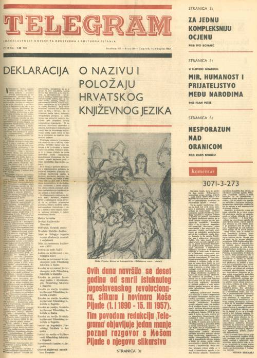 publication of the "Declaration Concerning the Name and the Status of the Croatian Literary Language" in the newspaper Telegram (original size: 575 x 415 mm [= almost A2])